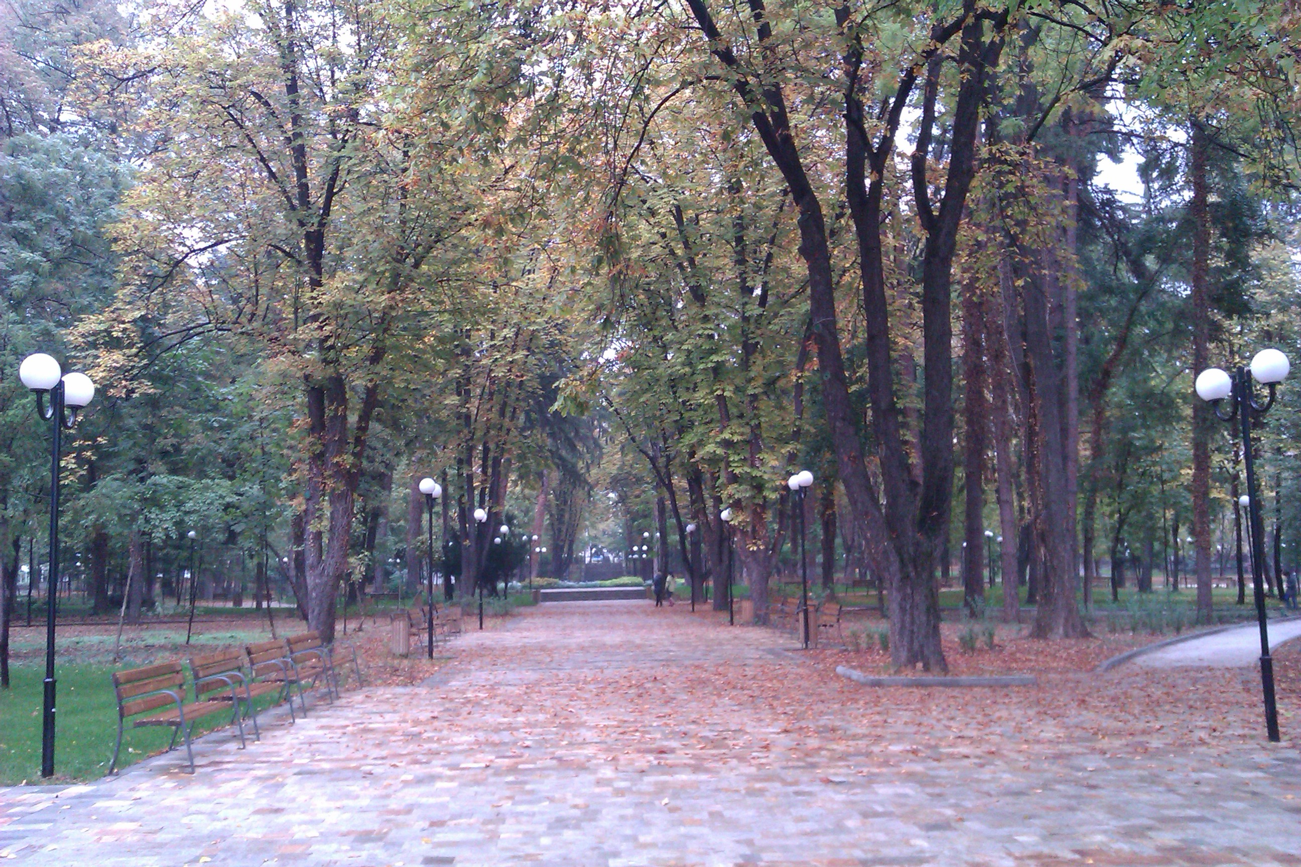 Парк Гоце Делчев